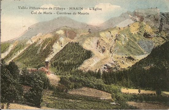 Maurin et les Carrières de MAURIN, le Col de Marie